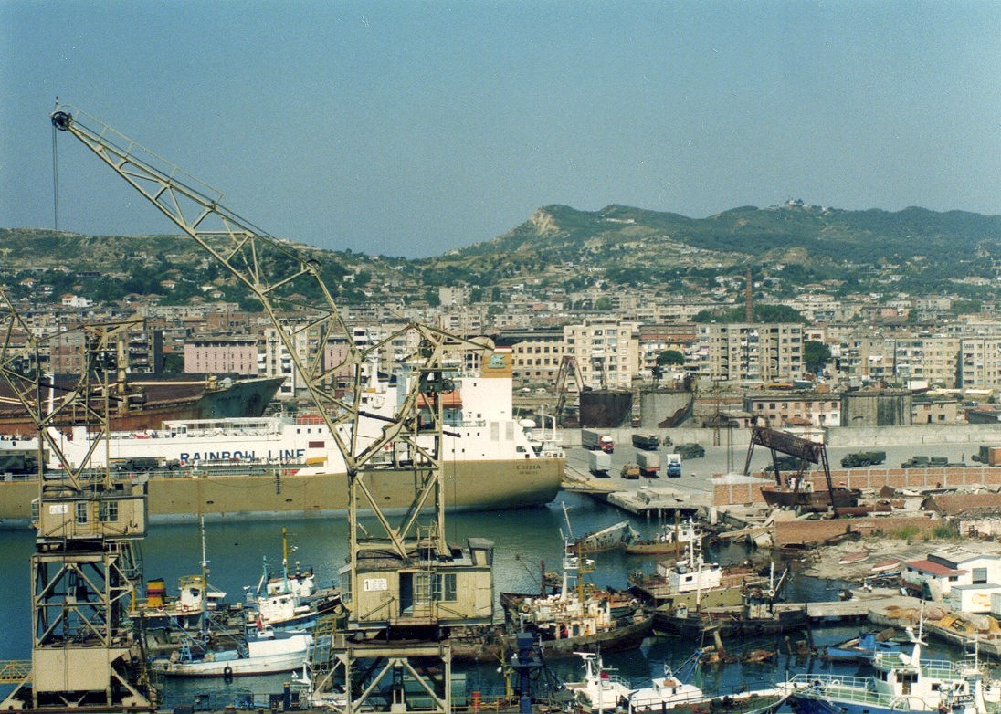 Port of Durres (Albania).